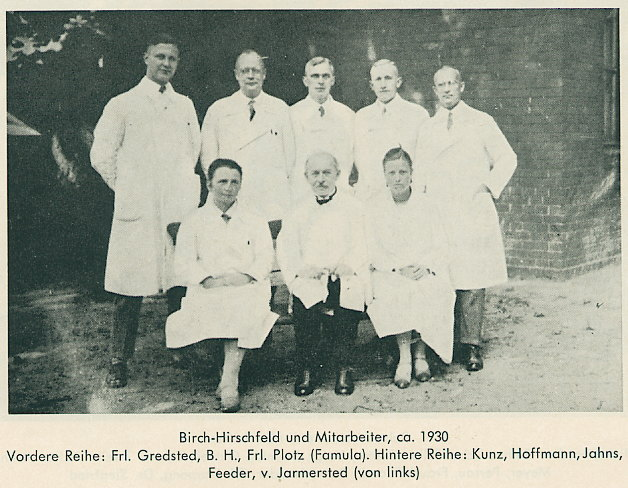 Birch-Hirschfeld (1871 - 1945) was famous Ophthalmologe at the University of Koenigsberg, Prussia. The picture shows, beside Birch-Hirschfelder, Prof. Wolfgang Hoffmann, first Director of the Clinc Westend during the foundation of the FU-Berlin (Free University of Berlin-West)